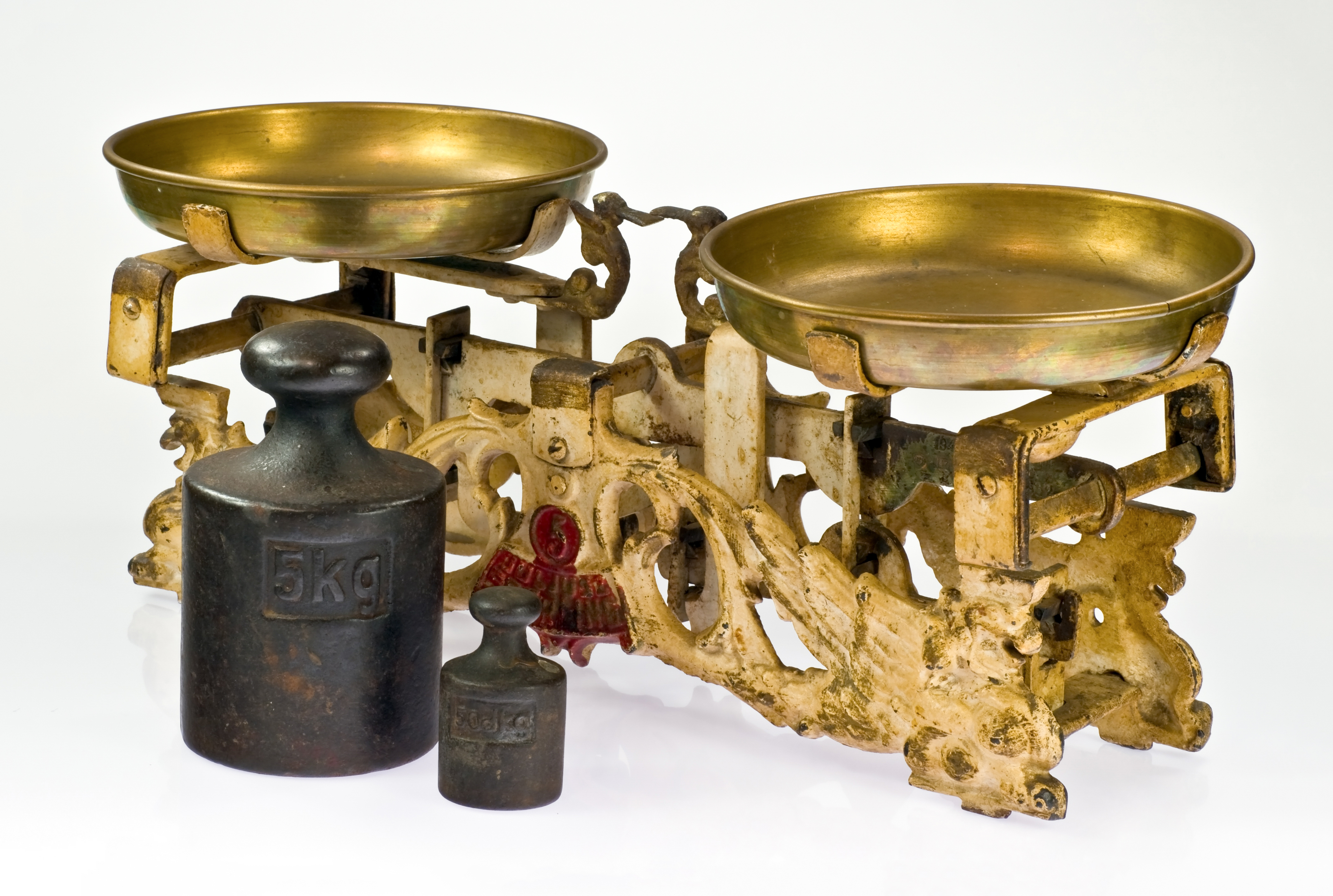 Old two pan balance